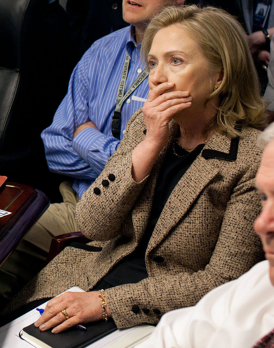 Hillary Clinton in the Situation Room of the White House during Operation Geronimo.